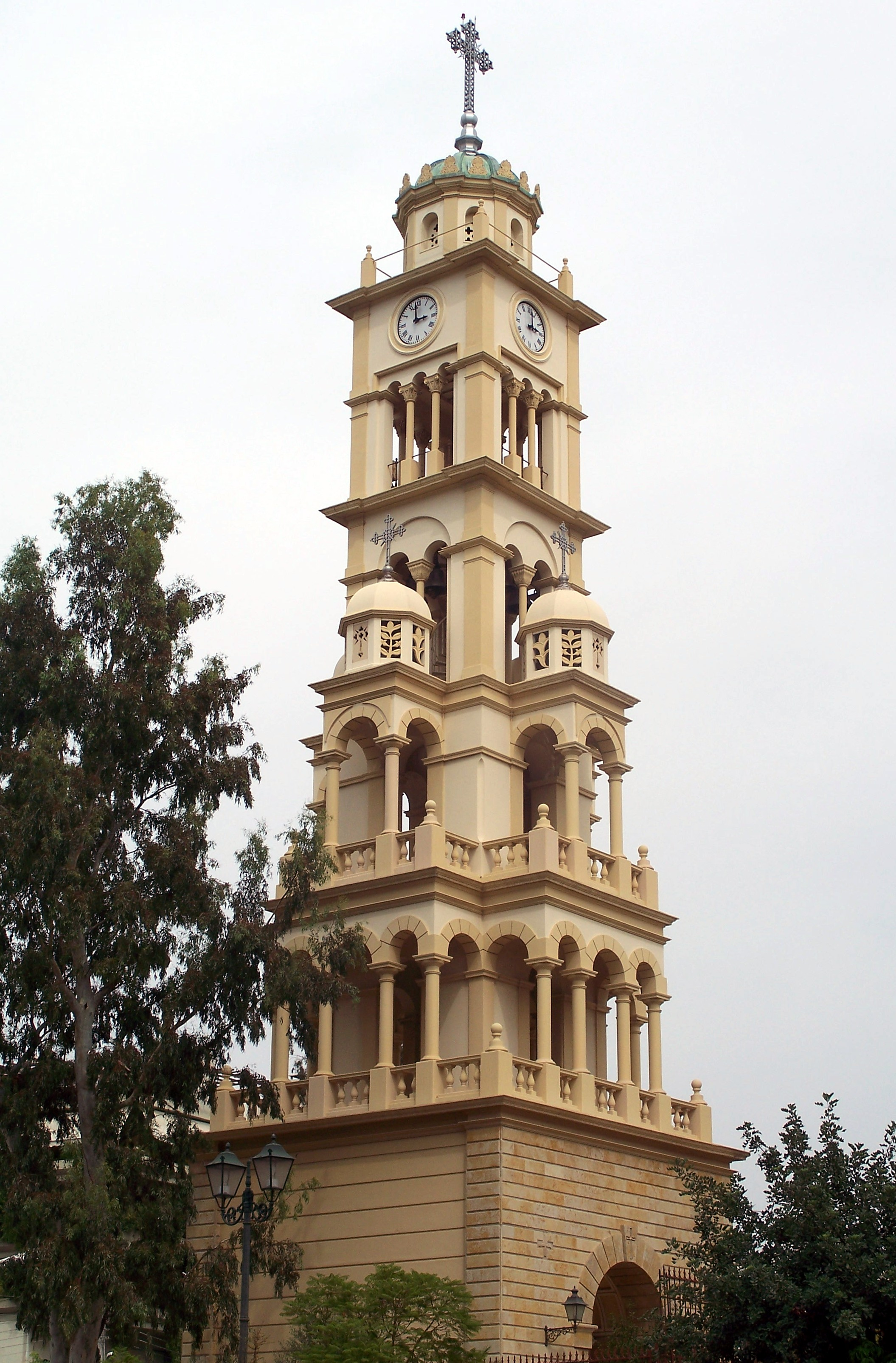 The bell tower of Agia Fotini at Nea Smyrni, Athens